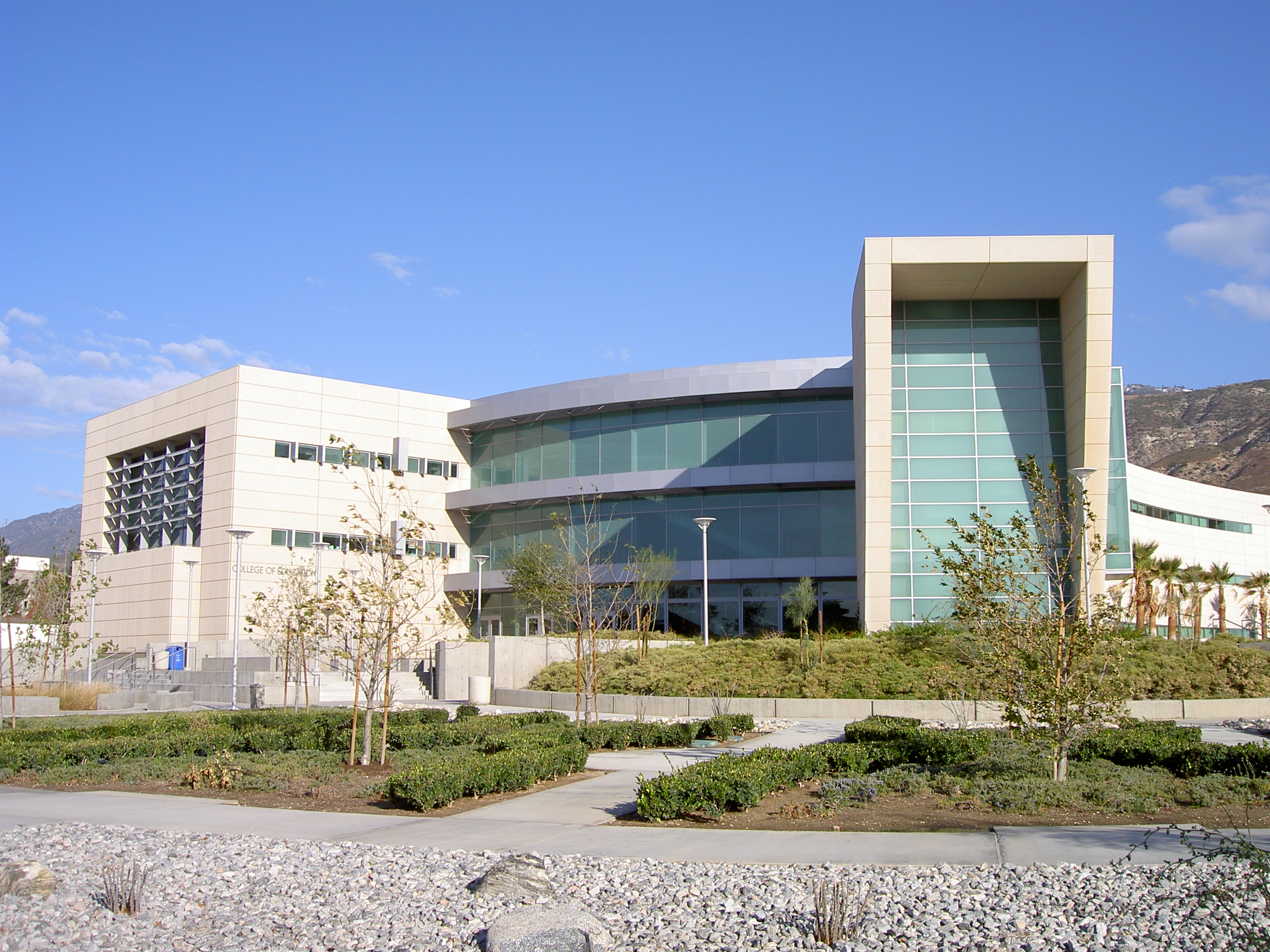 CSUSB